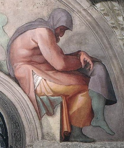 Sistine Chapel, fresco Michelangelo, one of Ancestors of Christ series